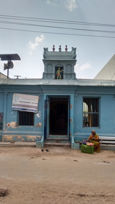 Anantatandavanjaneyar temple ஆனந்ததாண்டவஆஞ்சநேயர் கோயில்